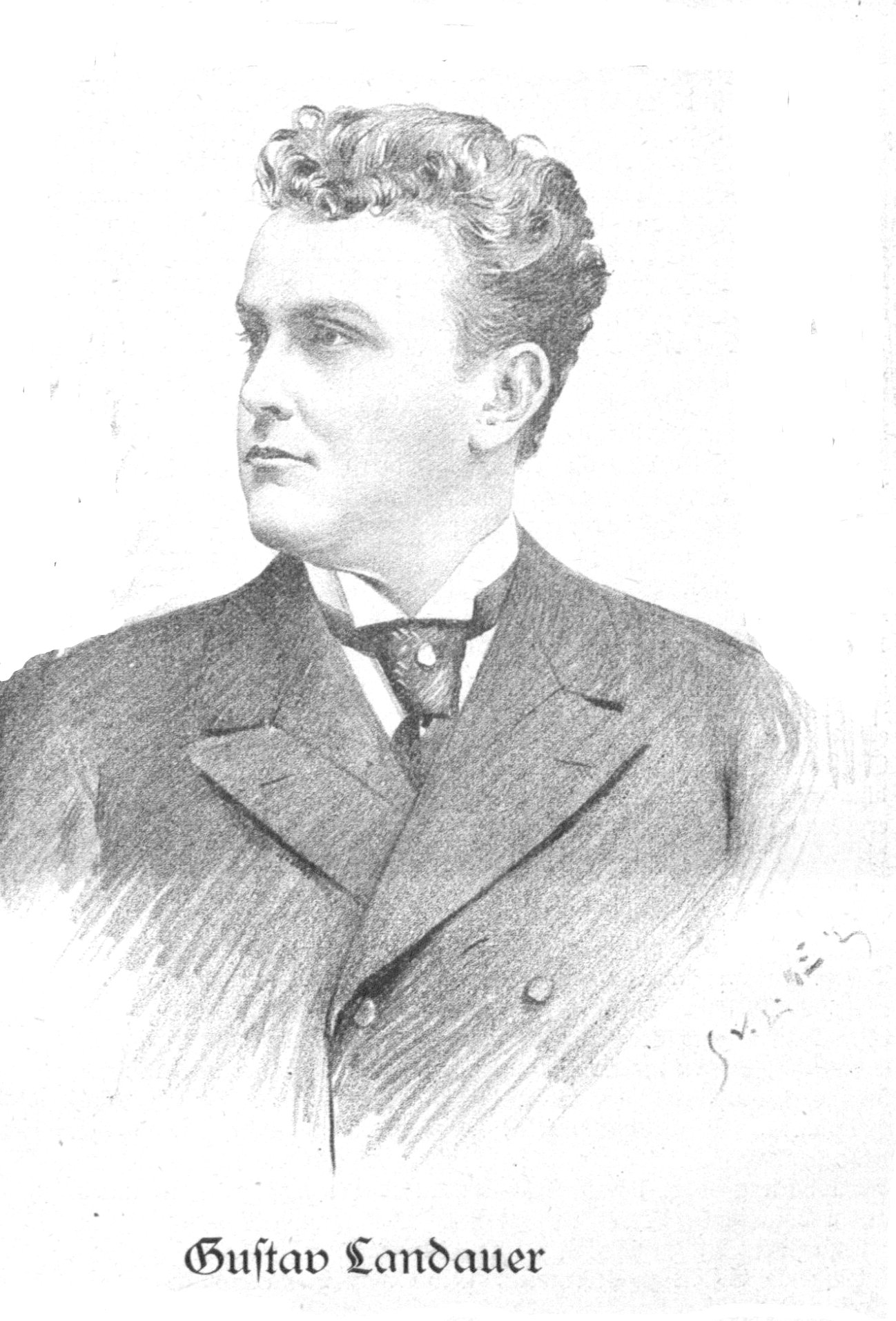 Portrait of Gustav Landauer (1866-1944), German opera singer